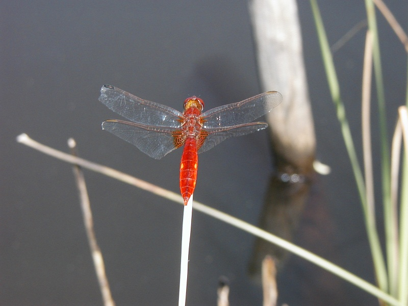 The red dragonfly Crocothemis erythraea is a species that the larvae lives in the temporary ponds of Maures Plaine (Vidauban - Provence)